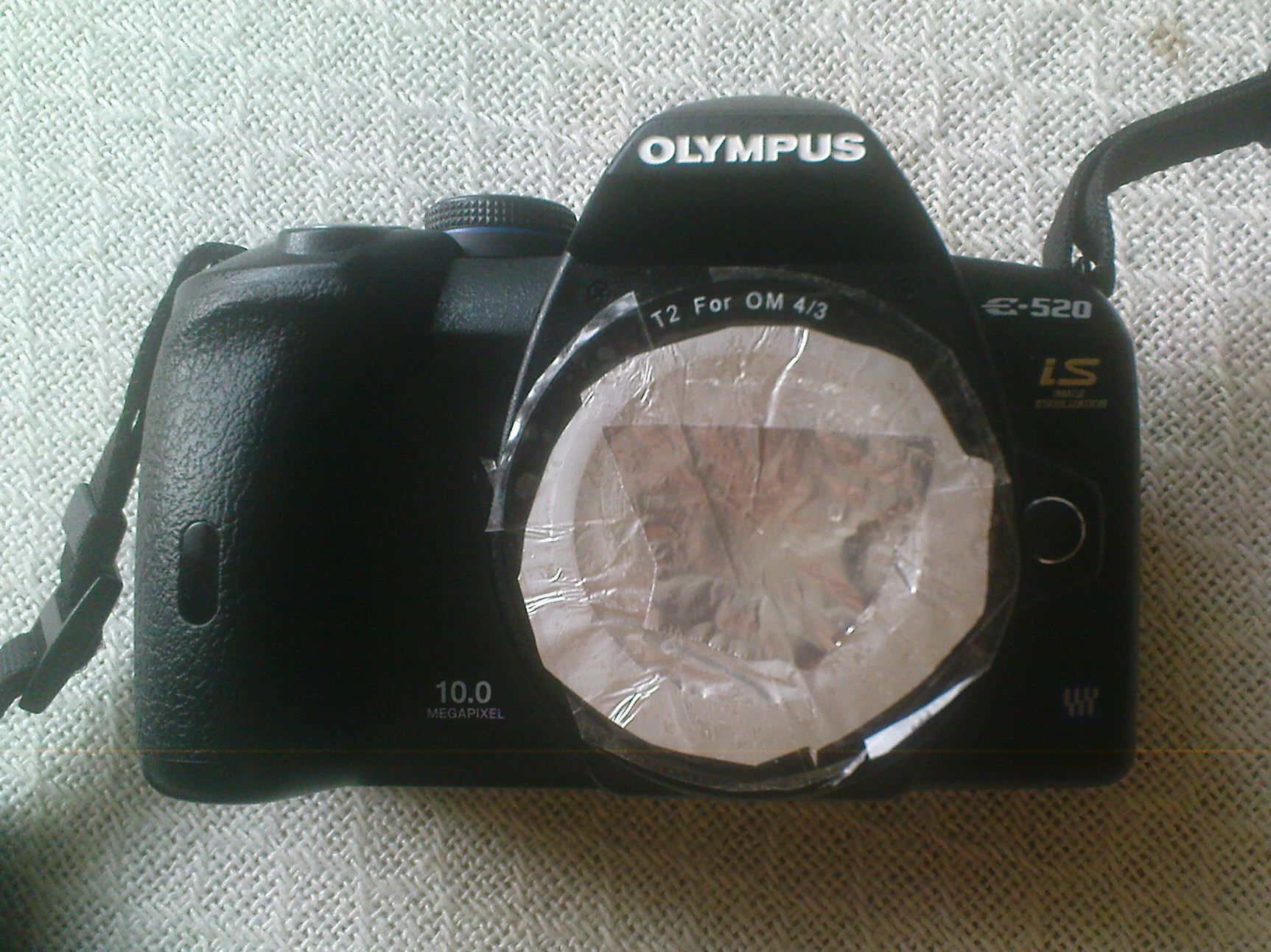 Digital camera adapted to pinhole